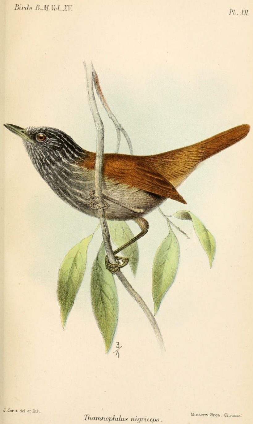 Thamnophilus nigriceps, Black Antshrike